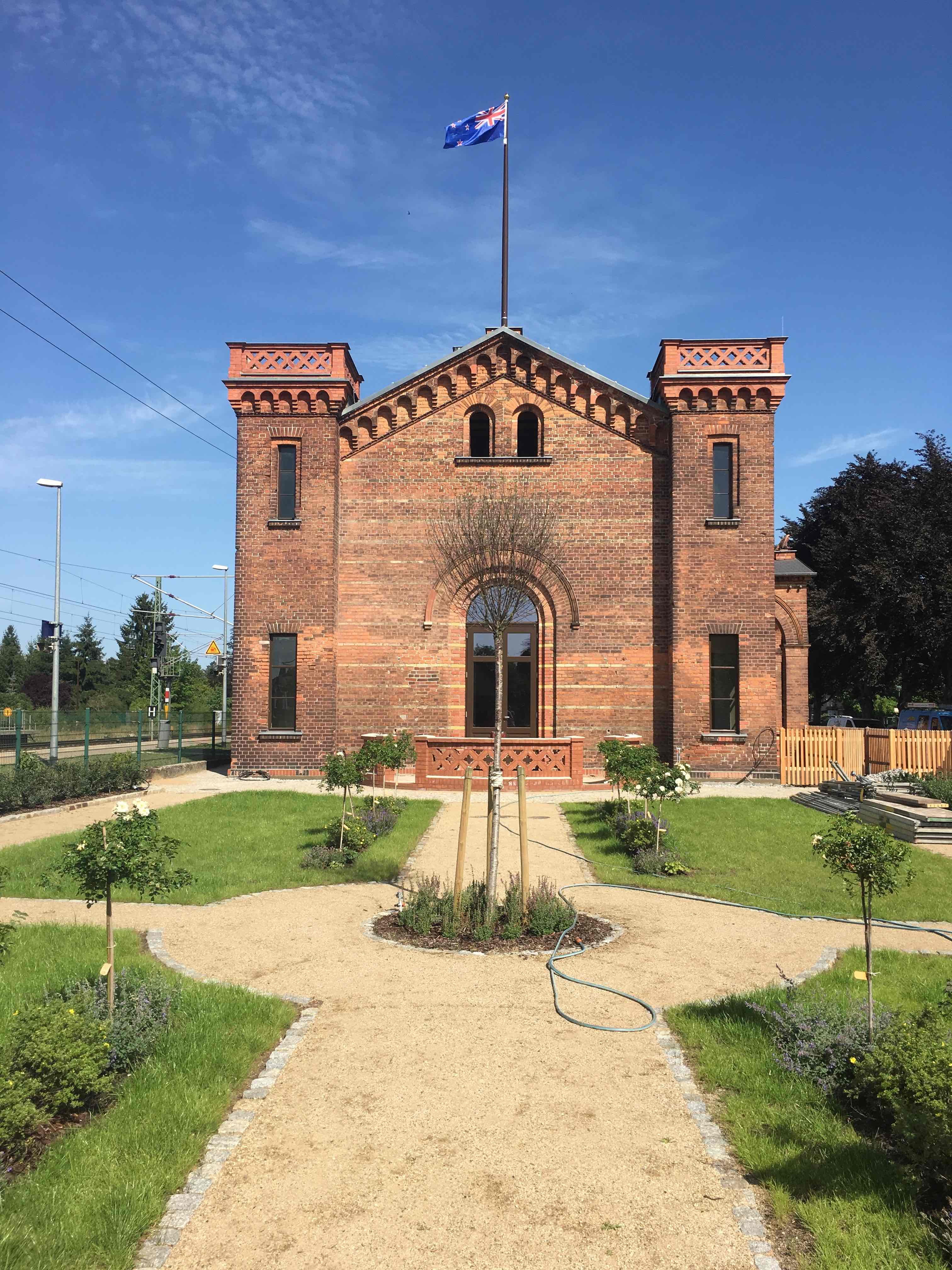 The new KBH Garden